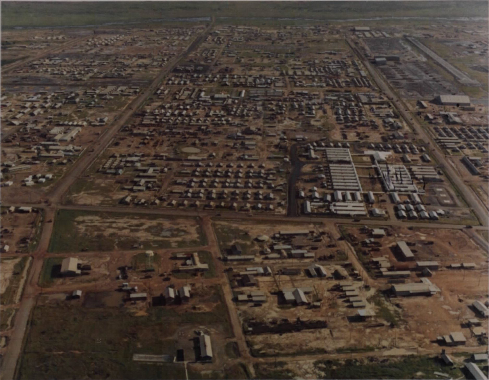 Aerial view of the 25th Inf Div base camp.